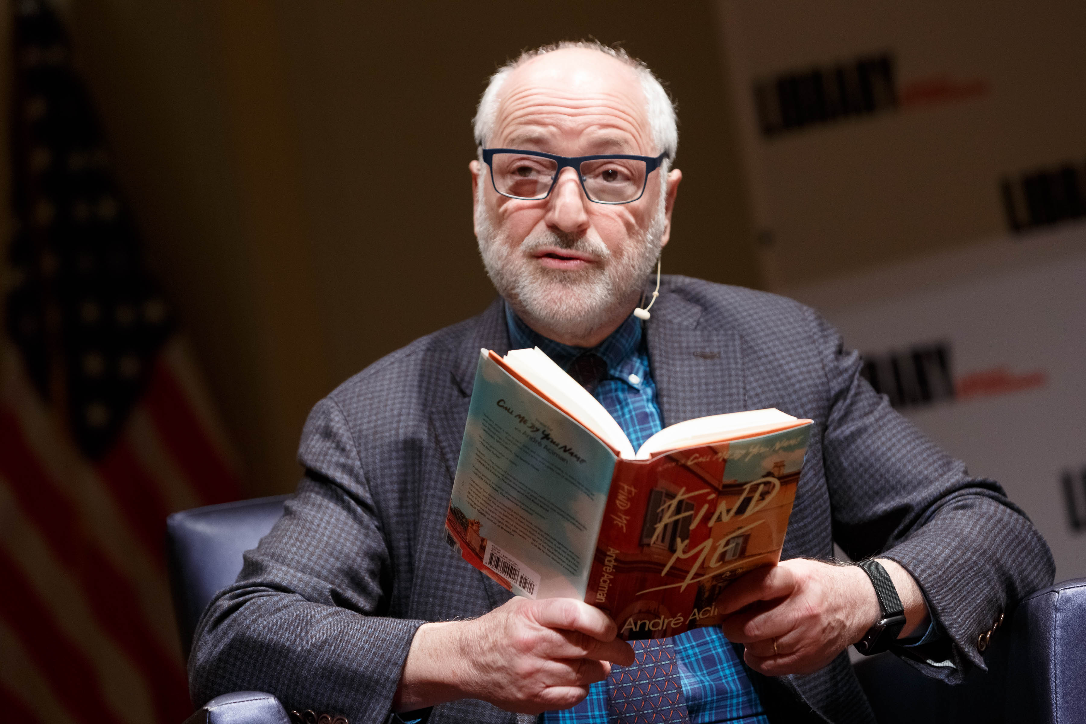 "Find Me" author André Aciman reads selections from his book during the "National Book Festival Presents" series, November 13, 2019. Photo by Shawn Miller/Library of Congress. Note: Privacy and publicity rights for individuals depicted may apply.